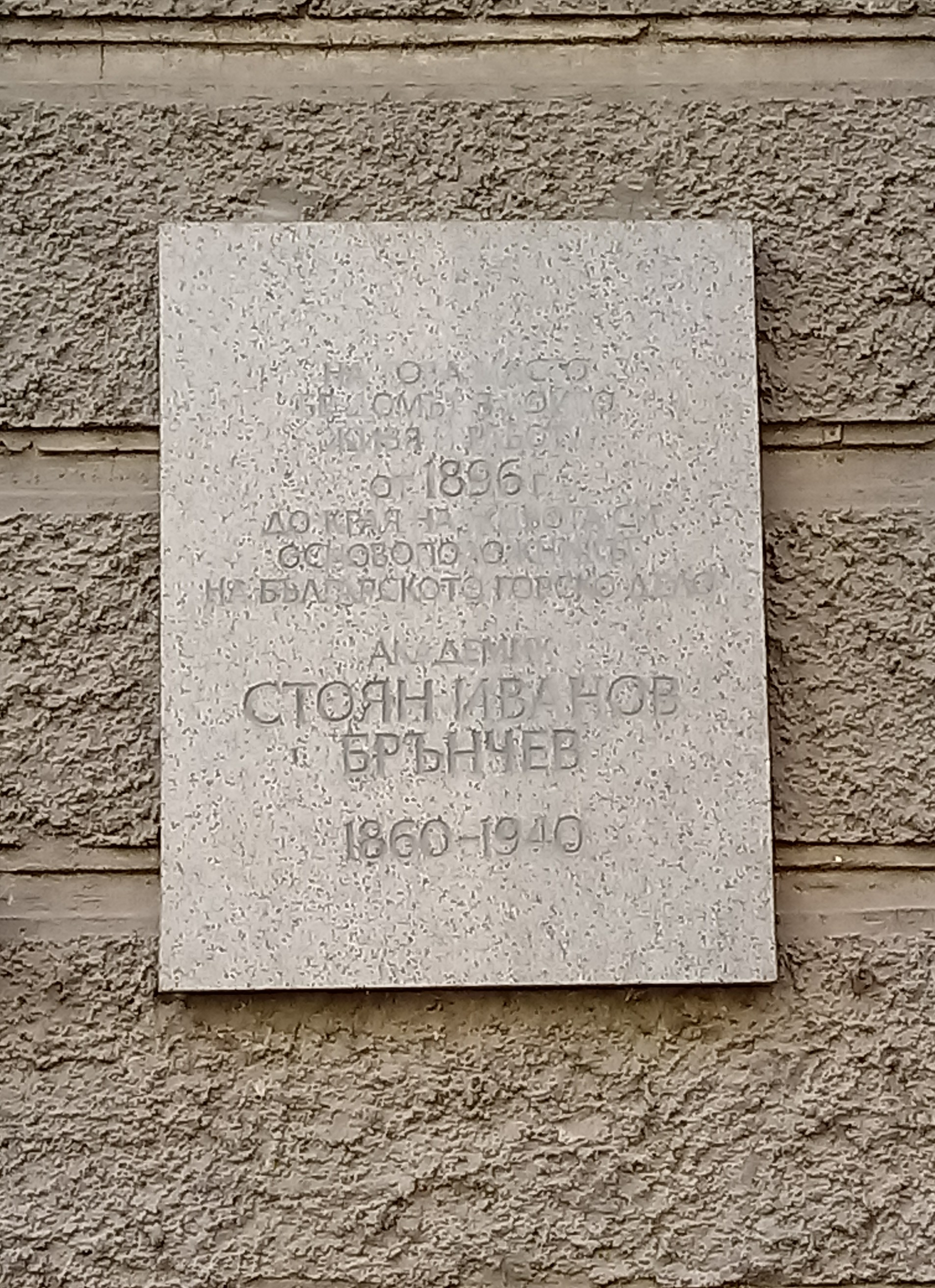 Stoyan Branchev memorial plaque, Sofia